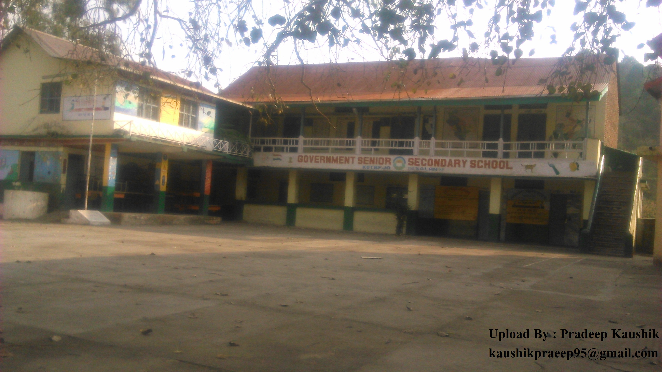 School Building